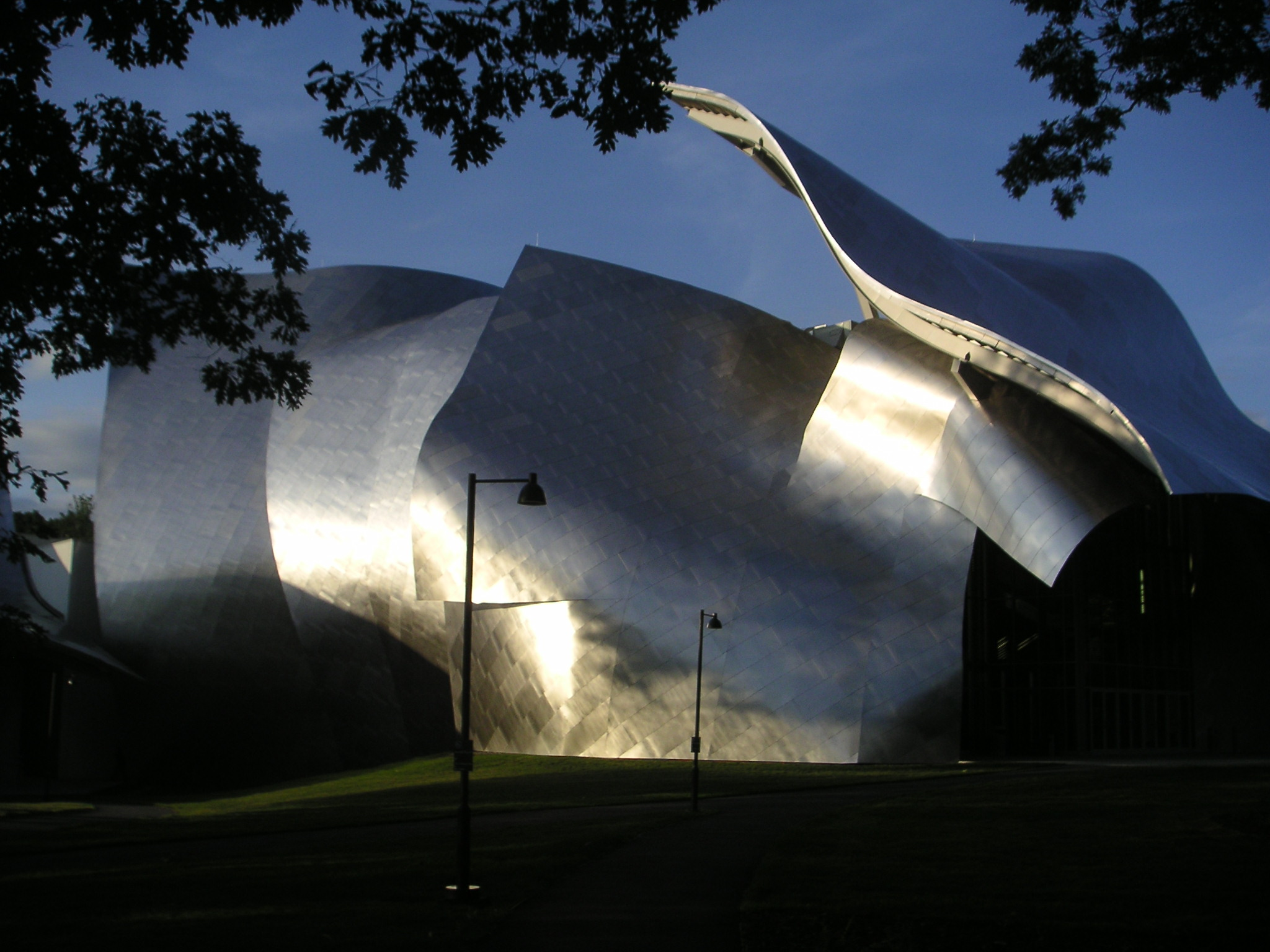 Photograph of the Richard B. Fisher Center for the Performing Arts, on the Campus of Bard College, Annandale-on-Hudson, New York. Architect: Frank Gehry. Taken 24 July 2004 by Paul Masck. Released with a creative commons license by the photographer on 30 July 2005.